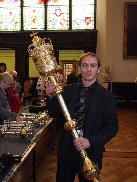 Lord President of the Court of Session's Mace A court official kindly demonstrates the mace during an 'Open Doors Day'. This mace is also known as the 'Old Exchequer Mace'. It was made in London in 1667 and made of silver coated with 24 carat gold weighing 17 pounds. It carries the monogram C.R.for the then monarch Charles II. The mace in use in the House of Commons is similar. On the table can be seen other maces used in the courts including an even older one presented by Mary Queen of Scots.